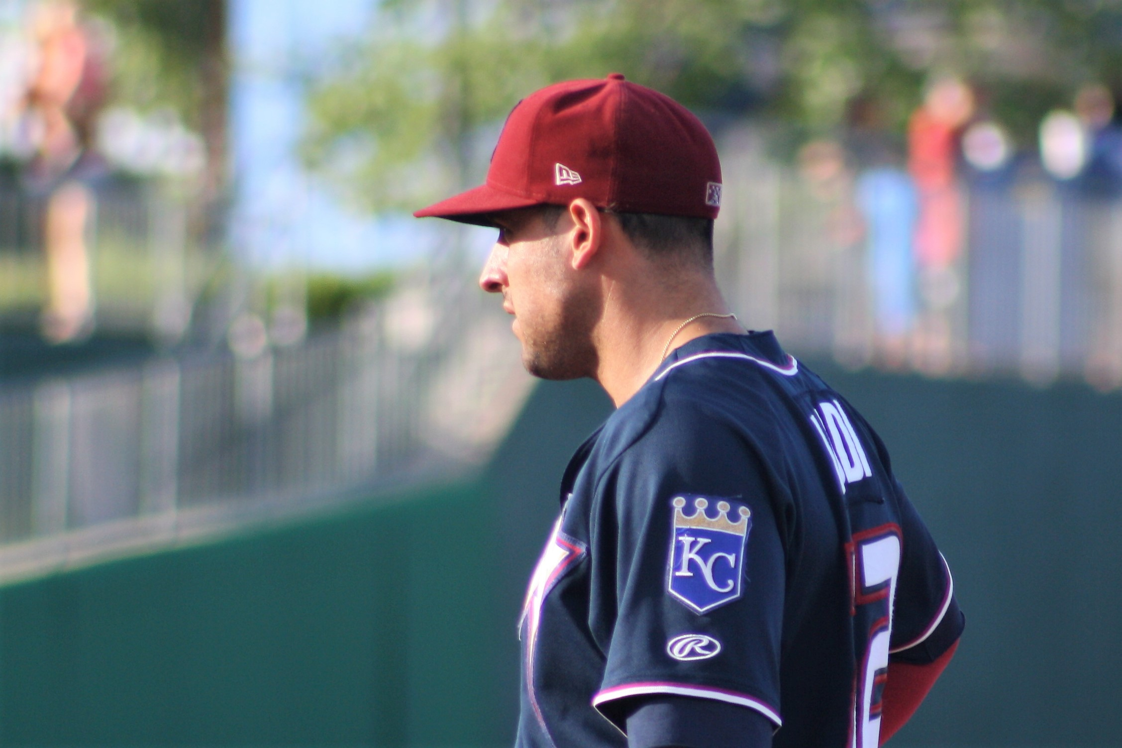 Alex Liddi plays baseball for the Northwest Arkansas Naturals